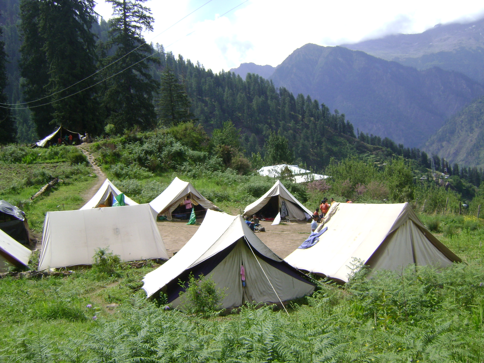 Guna pani camp- 1st higher camp